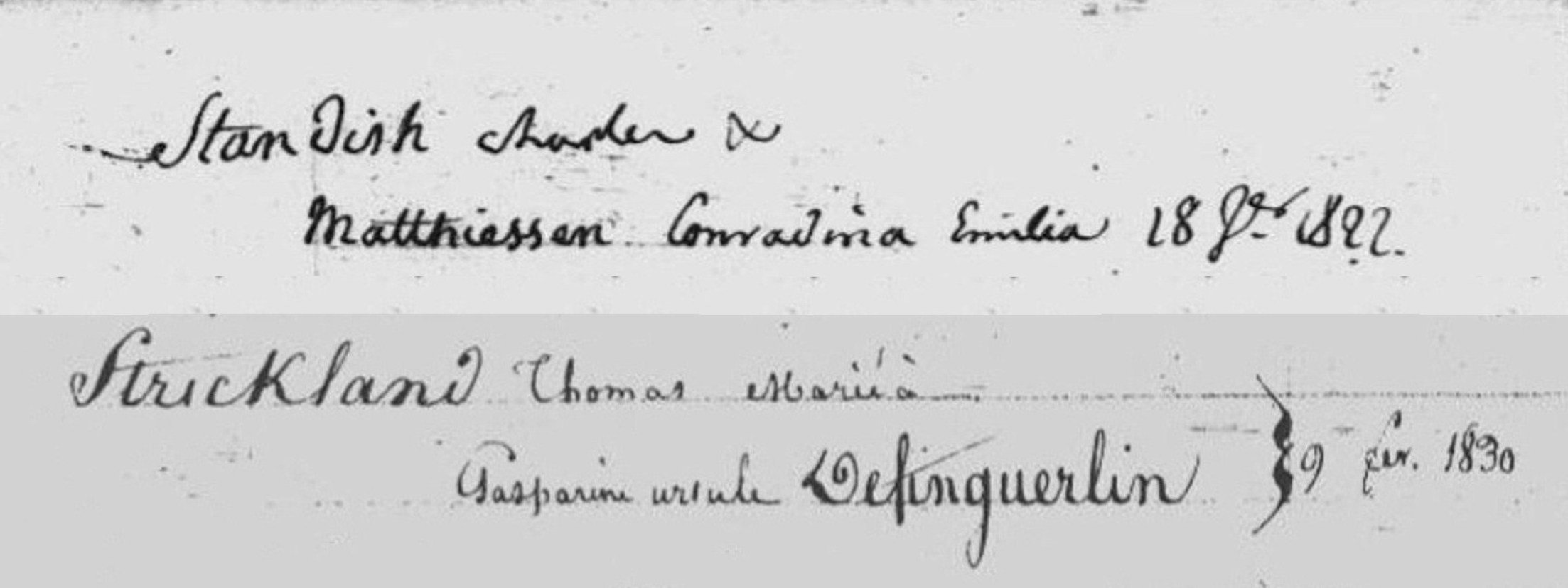 Decennial table of the marriages of Carlepont (department of the Oise) from 1822 to 1832. Lord Charles Strickland Standish (1790-1863) married Émilie Conradine Matthiessen (1801-1831) in Carlepont on 18 January 1822. Thomas Strickland Standish of Sizergh (1792-1835), younger brother of Charles Strickland Standish, married Gasparine Ursule Ida of Finguerlin de Bischingen (1805-1846), half-sister of Émilie Conradine Matthiessen, in Carlepont on 9 February 1830.